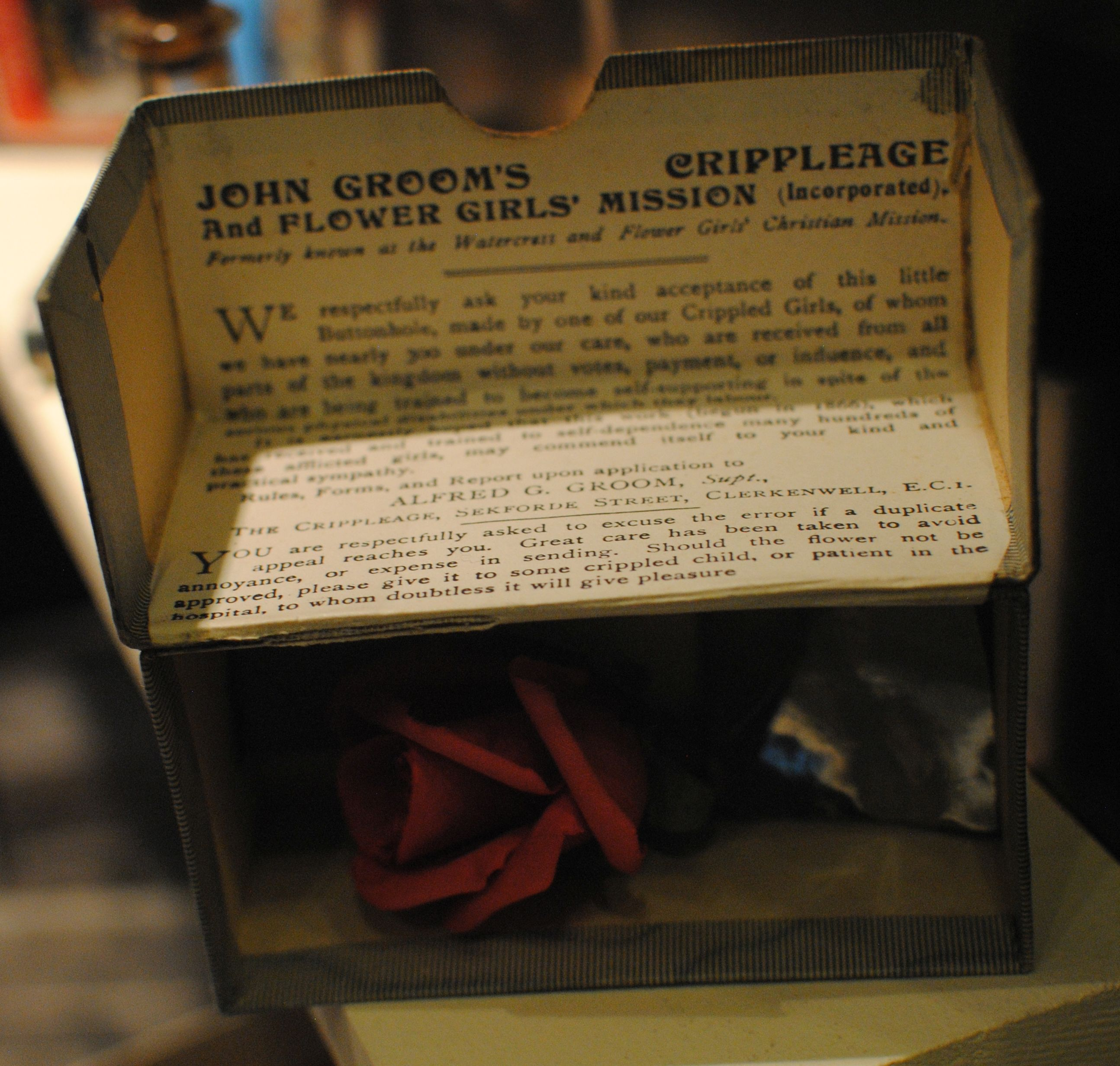 Artificial rose in a box, now in Wednesbury Museum and Art Gallery, Wednesbury, England. For transcription, see File:Wednesbury Museum - 2016-11-30 - Andy Mabbett - 05.jpg.